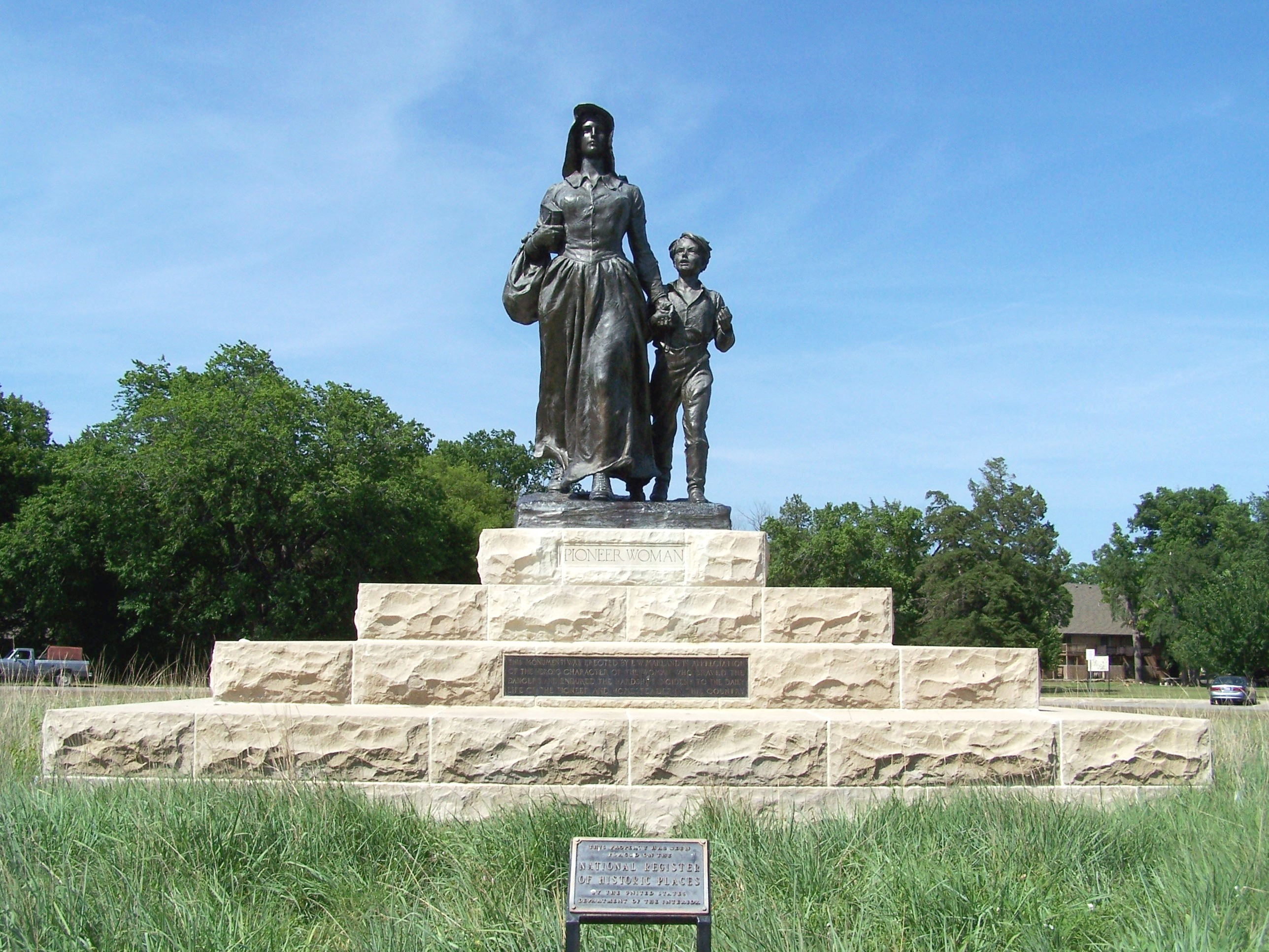 Sculptor: Bryant Baker Unveiled: 1930 2012 National Resister of Historic Places Ponca City, Oklahoma